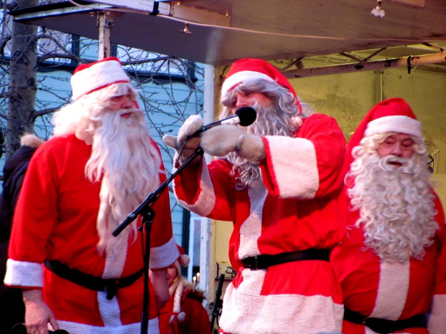 Yule lads are lighting Christmas tree in Akureyri, Iceland.